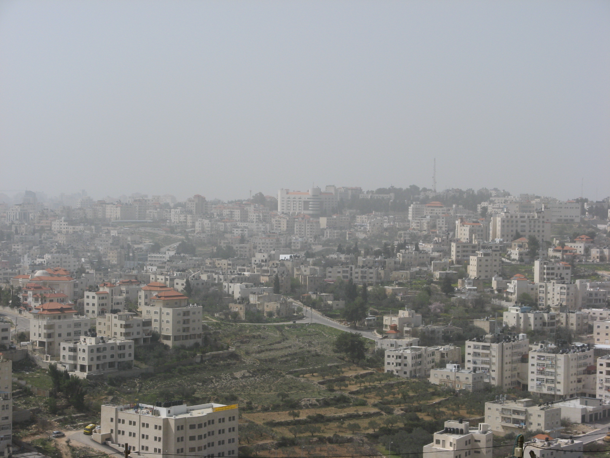 El Birah from Psagot settlement